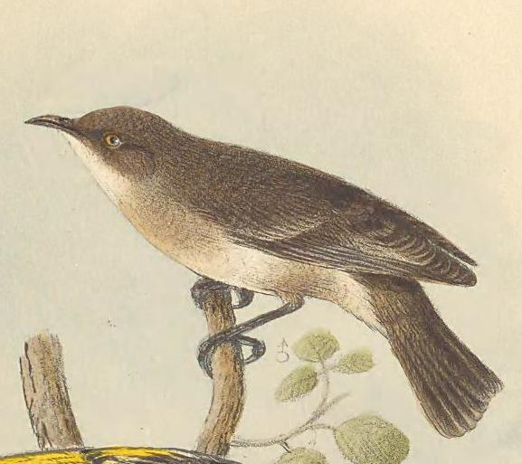 Lacustroica whitei - The Birds of Australia